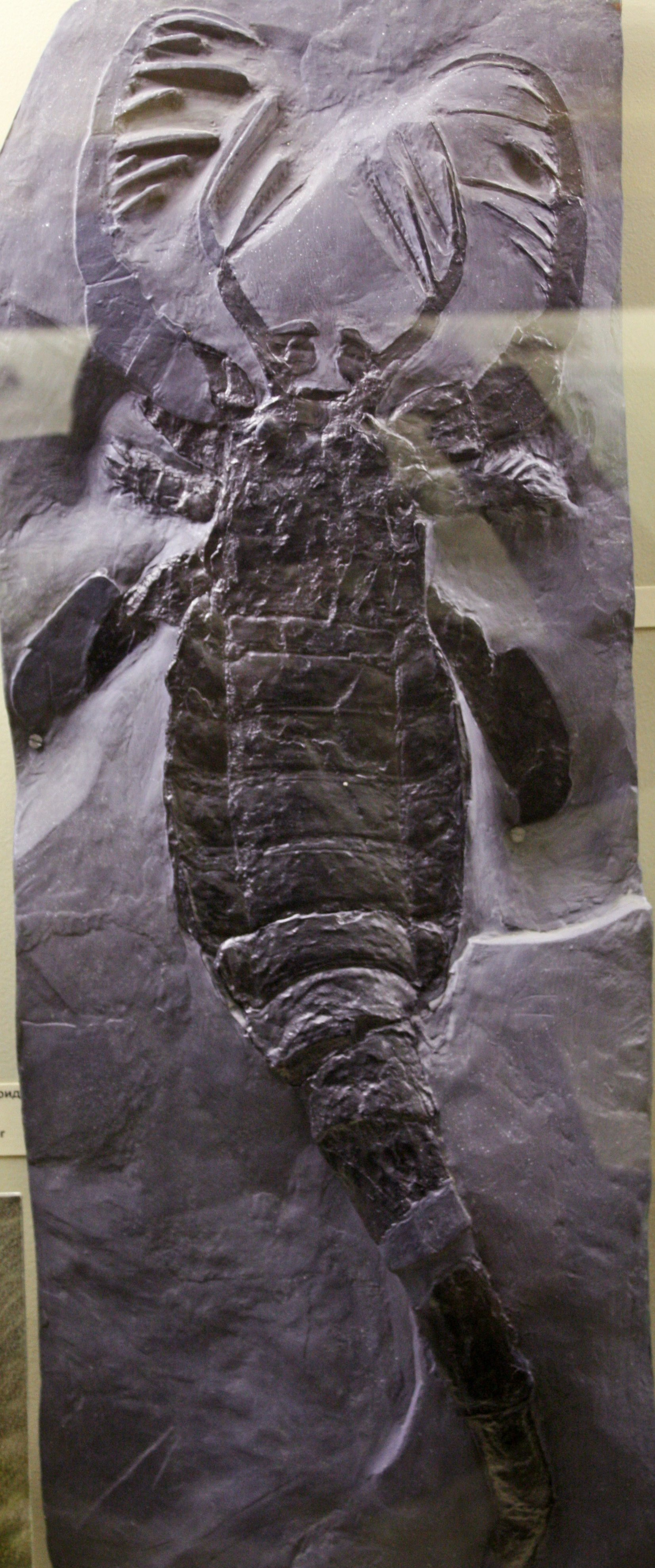 Crop of file in filename